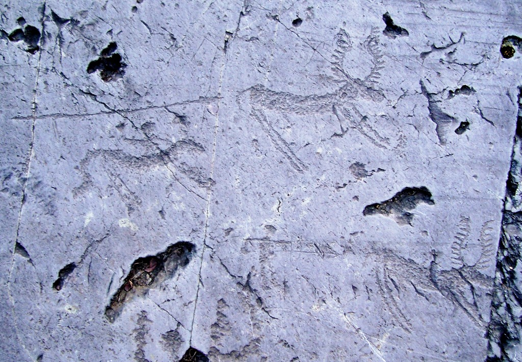 Scene of deer hunting. R. 12, Parco archeologico comunale di Seradina-Bedolina, Capo di Ponte, Val Camonica